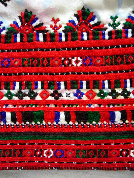 یک استین سوزن دوزی شده توسط زنان بلوچستان